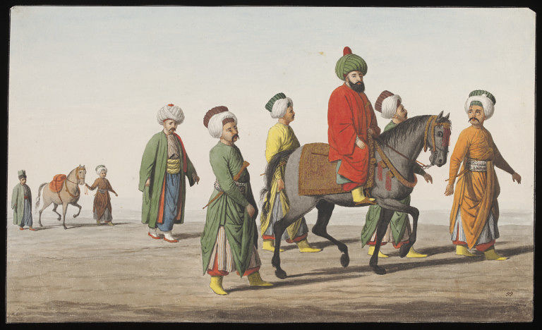 The governor (kaymakam) of Istanbul on horseback with his attendants